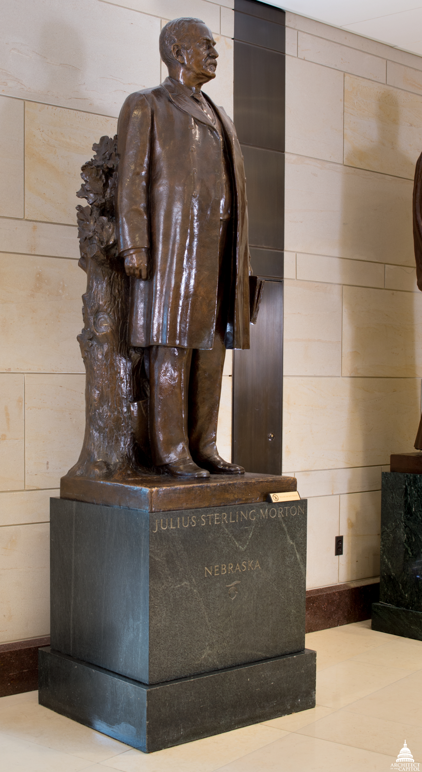 J. Sterling Morton's Capitol statue featuring a tree trunk, sapling, pruning shears and shovel symbolizing his founding of Arbor Day.